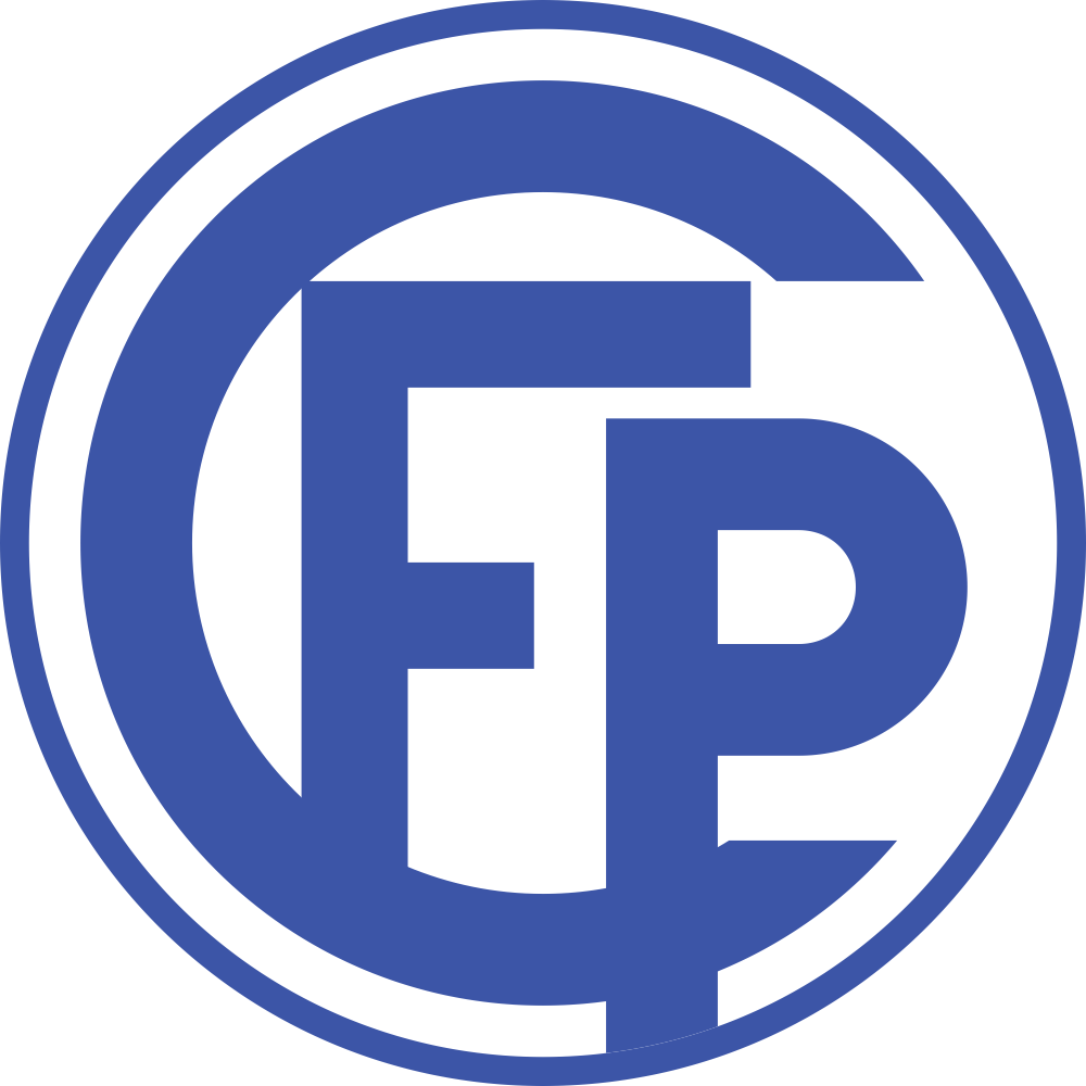 Historic logo of 1. FC Pforzheim (1930s)